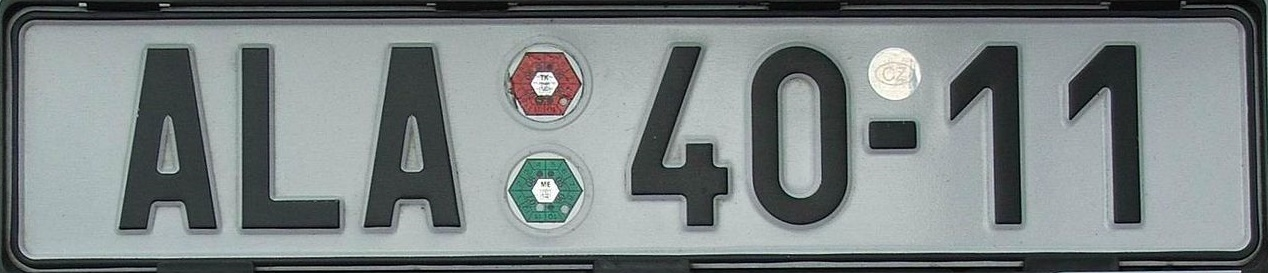 Czech registration plate issued 2001,(Old system of licence plates).